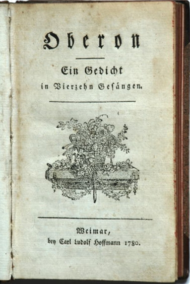 Title page from Oberon (1780 edition), by Christoph Martin Wieland (1733–1813)